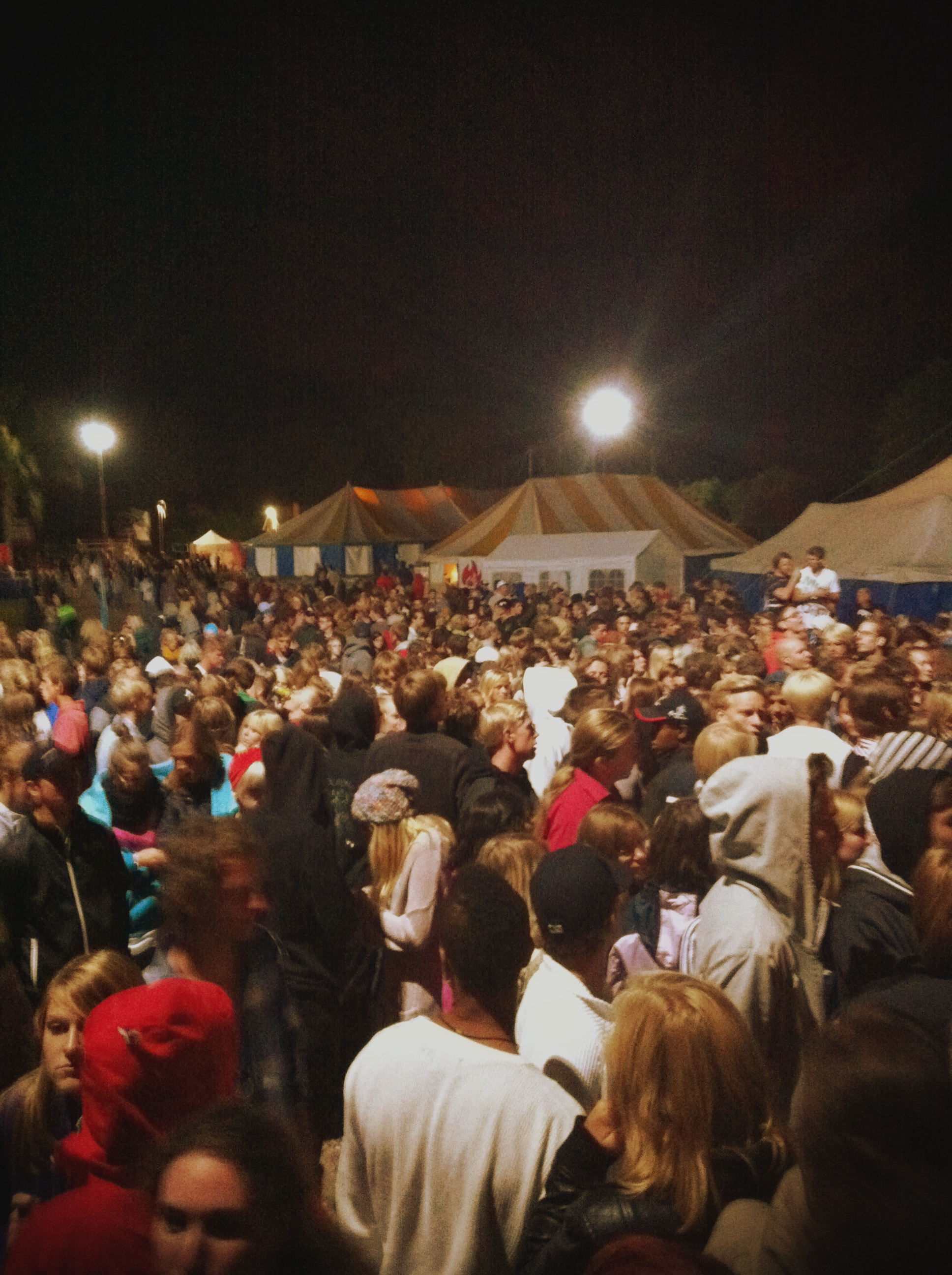 People at Frizon Festival